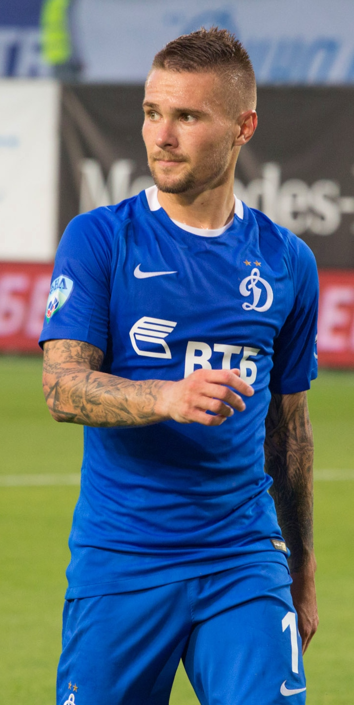 Ivan Temnikov